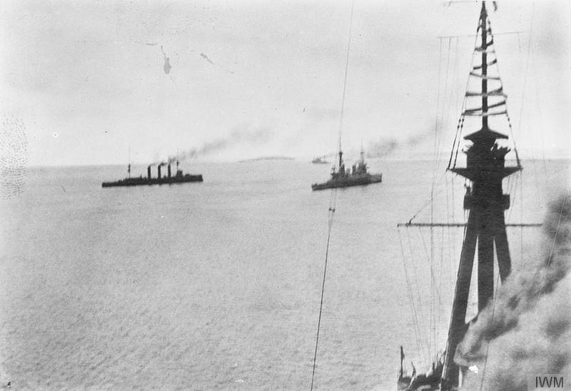 The Battle of the Falkland Islands 8 December 1914 Vice Admiral Sir Doveton Sturdee's squadron getting under way in Port Stanley harbour. Photograph shows HMS KENT, GLASGOW and INFLEXIBLE